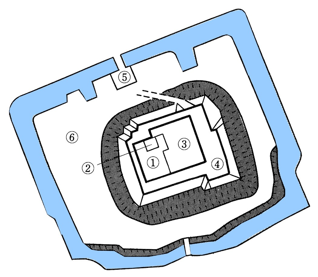 Layout of Marugame Castle